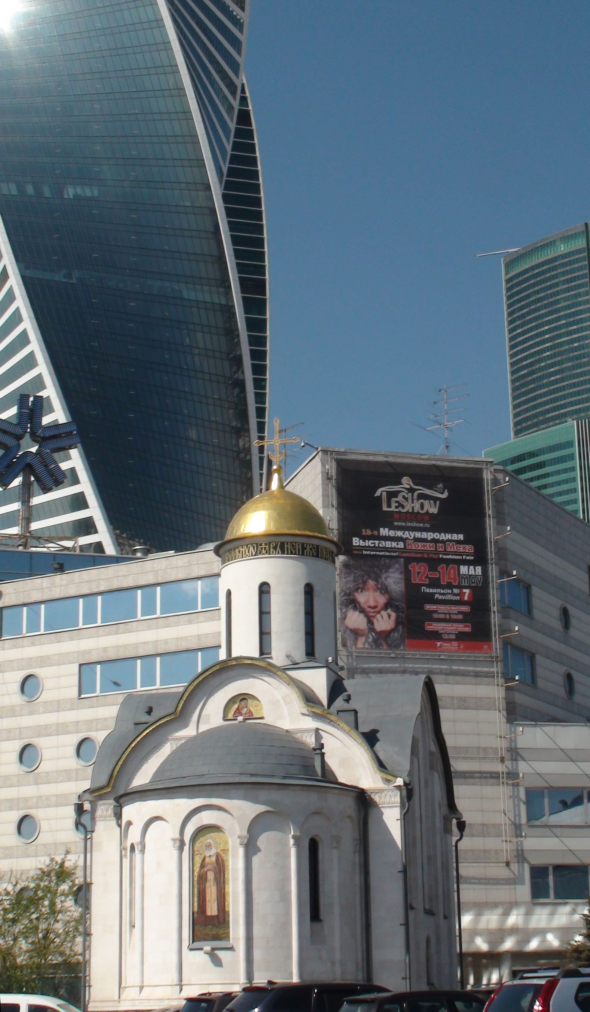 Храм Серафима Саровского на Красной Пресне Москва